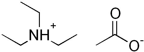 chemical structure of triethylammonium acetate